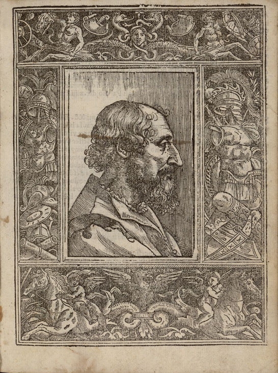 Portrait of Ludovico Ariosto in Orlando Furioso, Ferrara 1532. Location: Bourges, Bibliothèque municipale